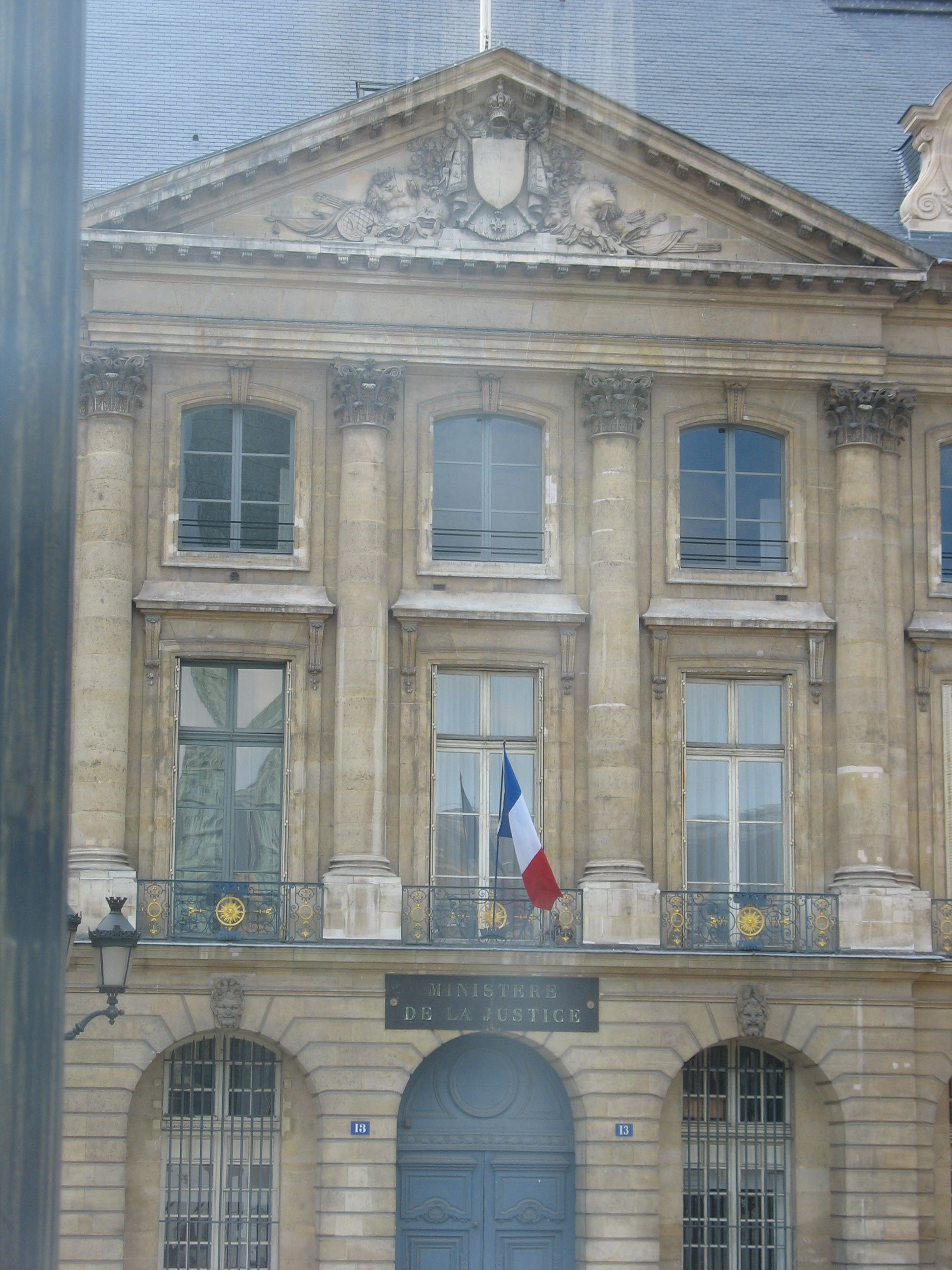 French Ministry of Justice in Place Vendome.